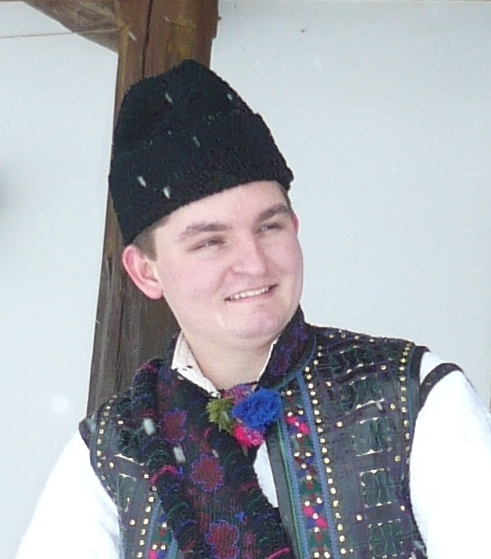 Count Ionuț Silaghi de Szilágyi-Oaș, Noble de Oaș